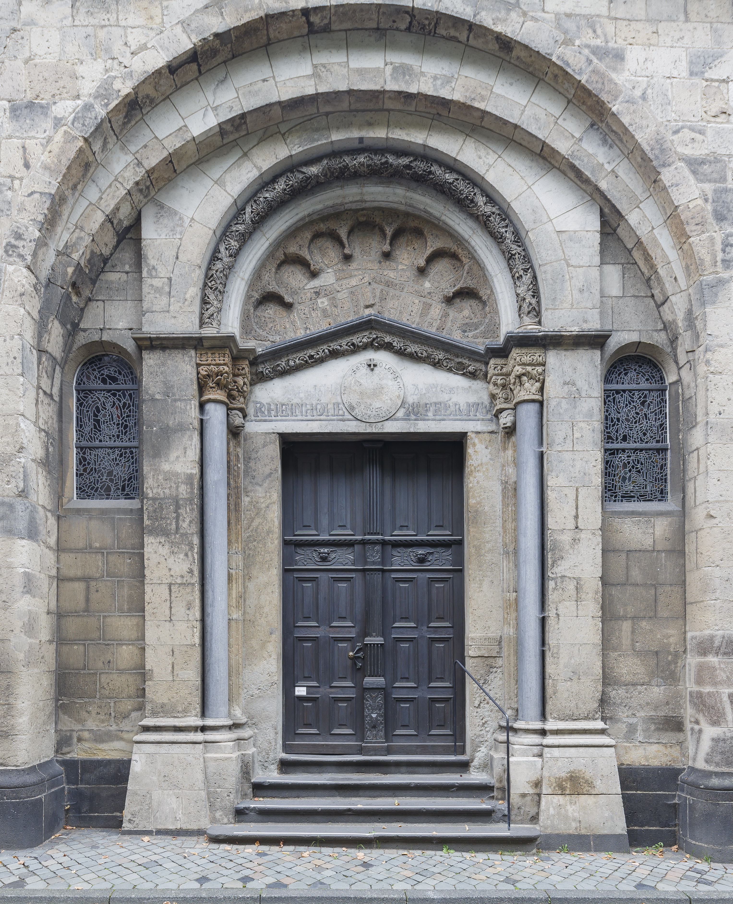 Cologne, Germany: West portal of St. Maria Lyskirchen (Köln)